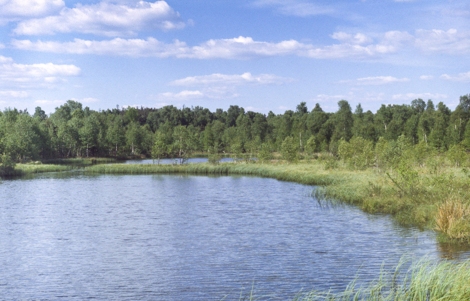 Jack's Swamp Nature Reserve - the middle reservoir (B). Wesoła, Warsaw, Poland. This is a photography of Natura 2000 protected area with ID PLH140034